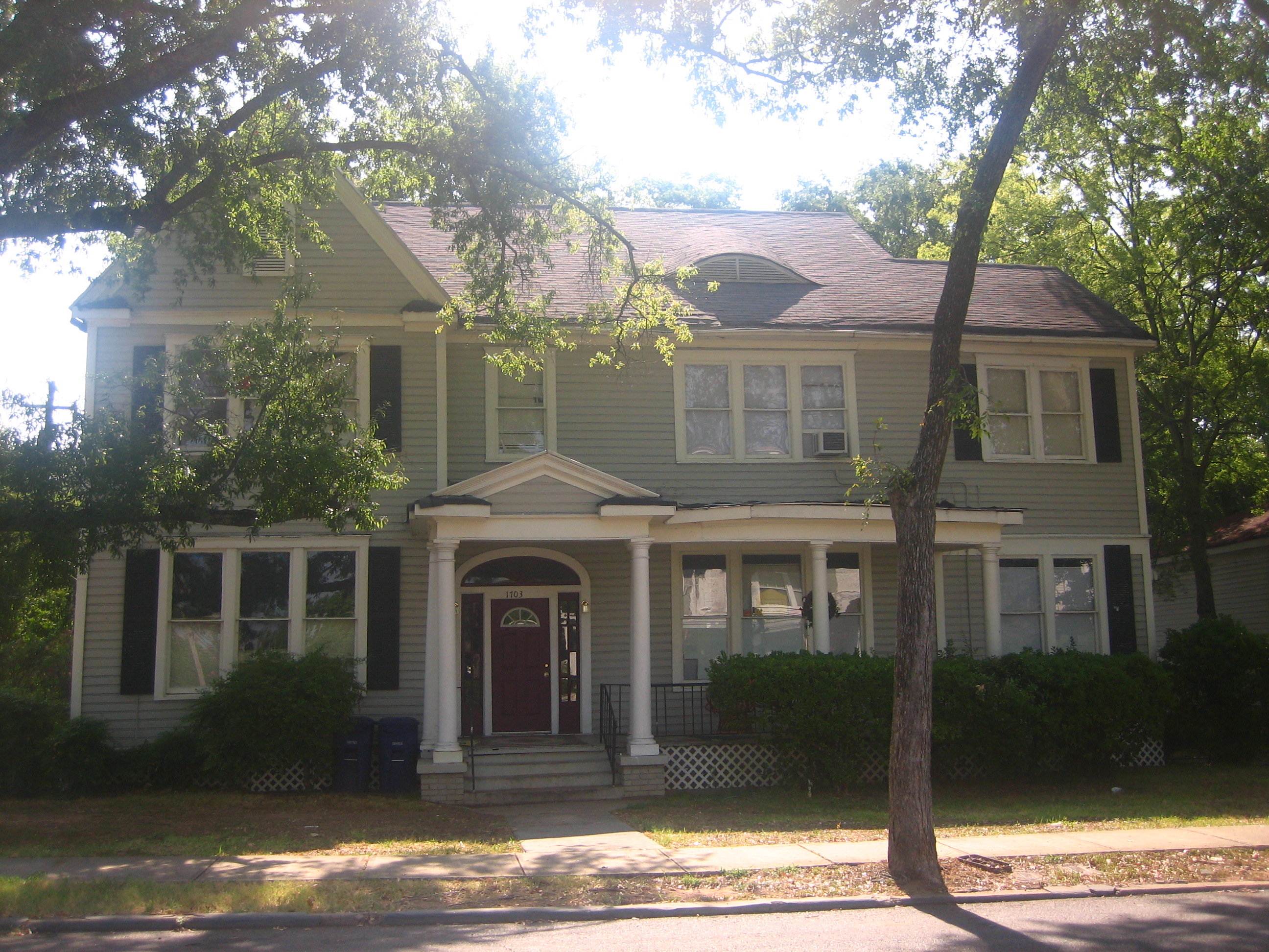 I took photo on Aug. 9, 2008.Billy Hathorn (talk) 00:20, 23 August 2008 (UTC)